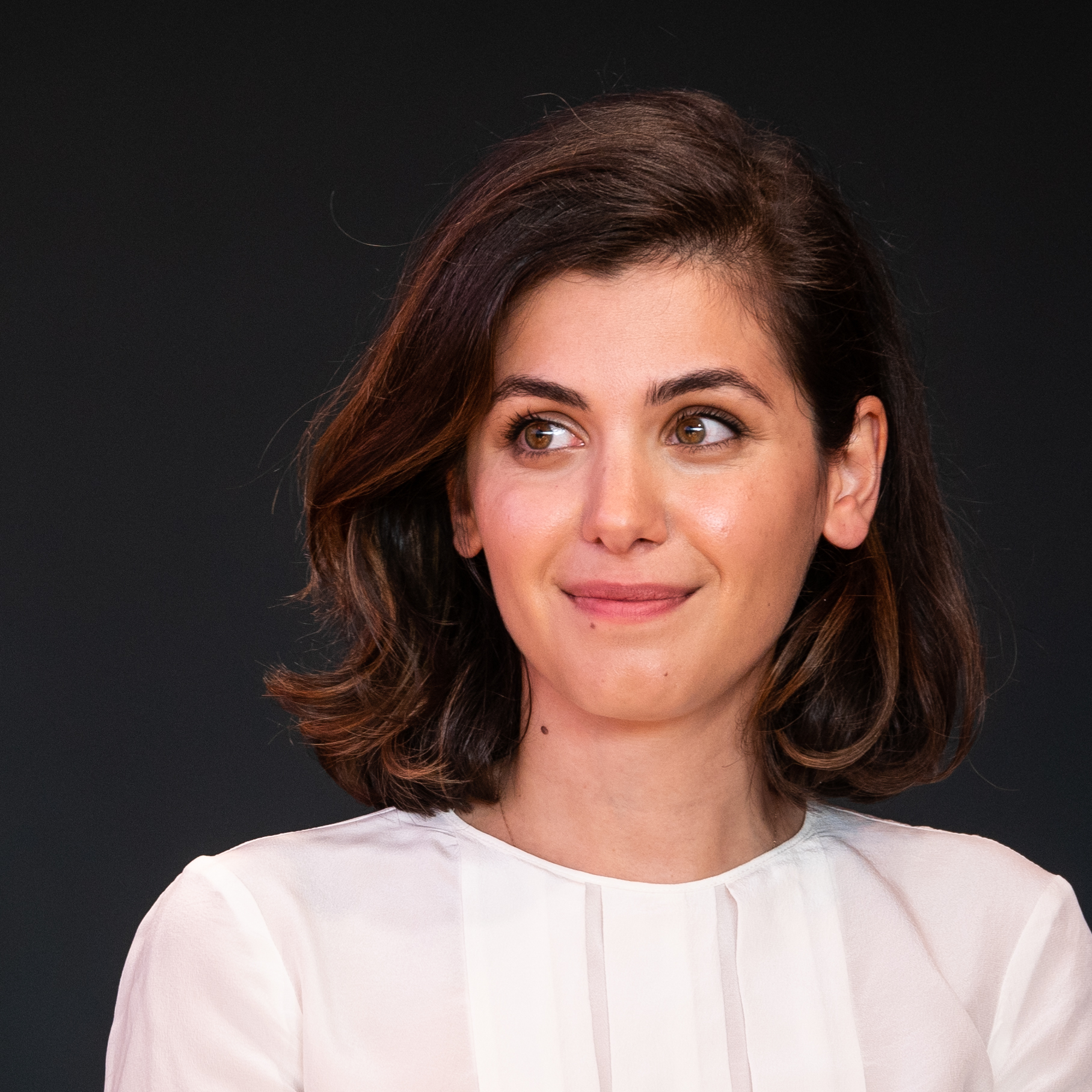 Singer-songwriter Katie Melua at the Frankfurt Book Fair 2017